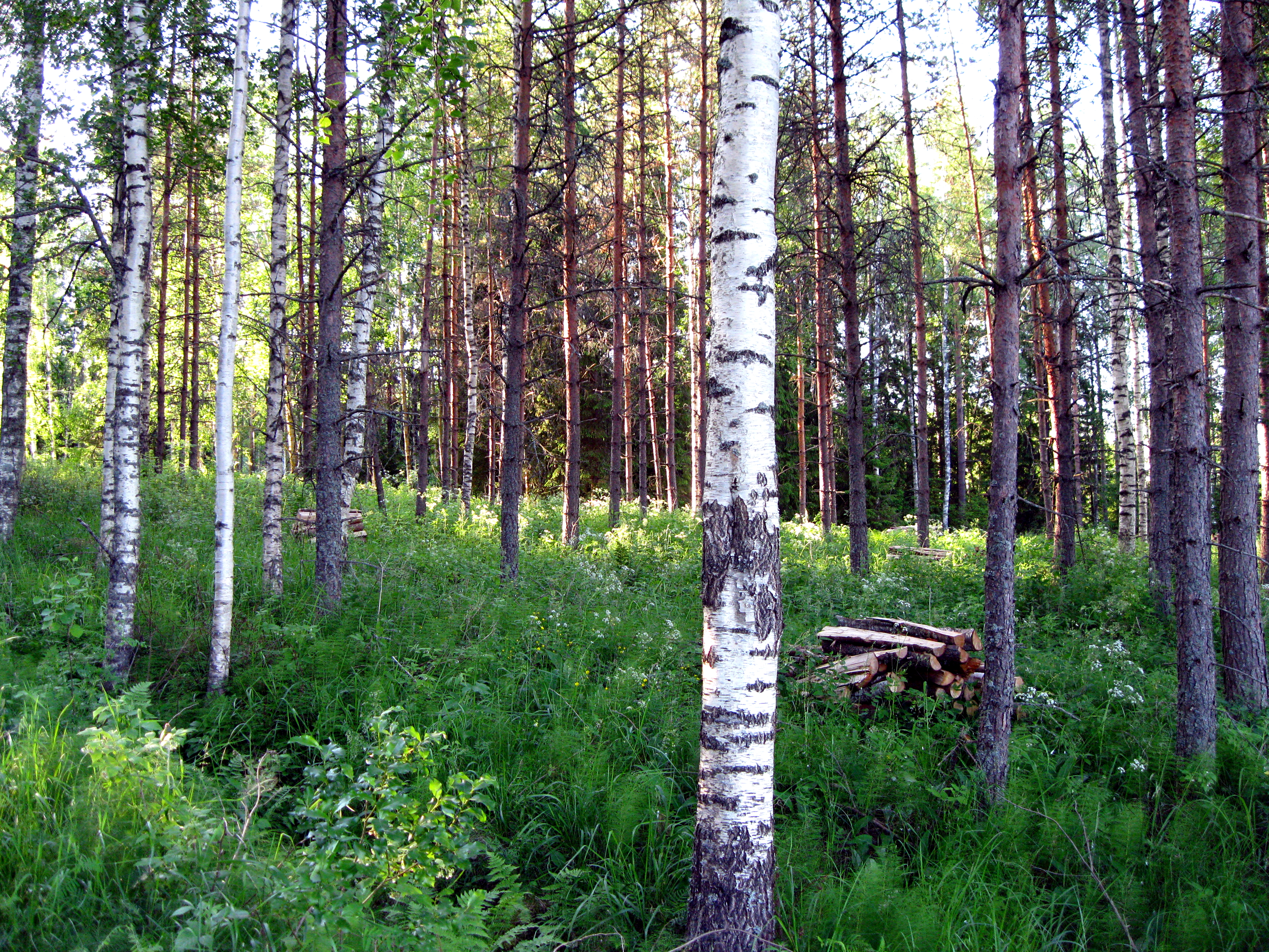 Finnish forest